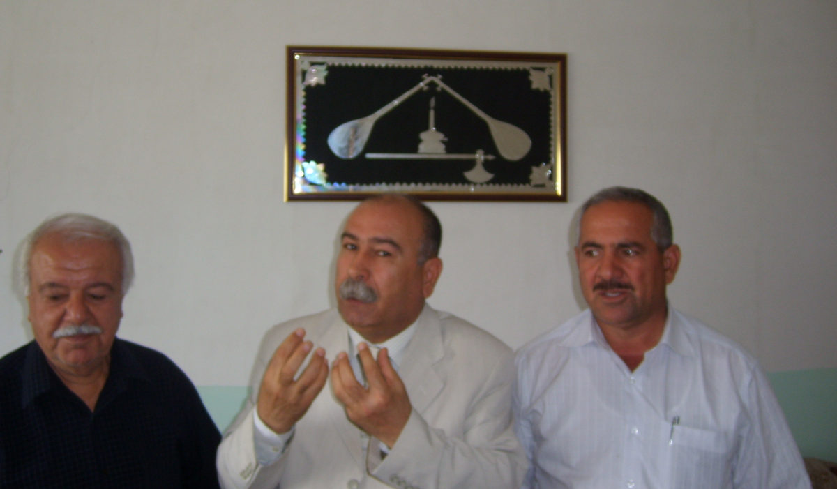 Three members of the kakaki (yarsani) faith in front of a symbolic picture. Photographed i Suleimaniyah, Iraq may 2007